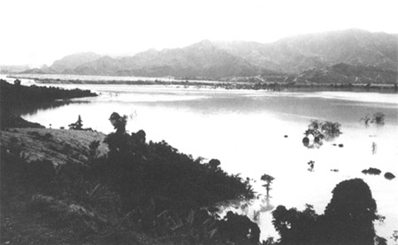 The newly formed Mapanuepe Lake after sinking three villages in San Marcelino, Zambales, Philippines.